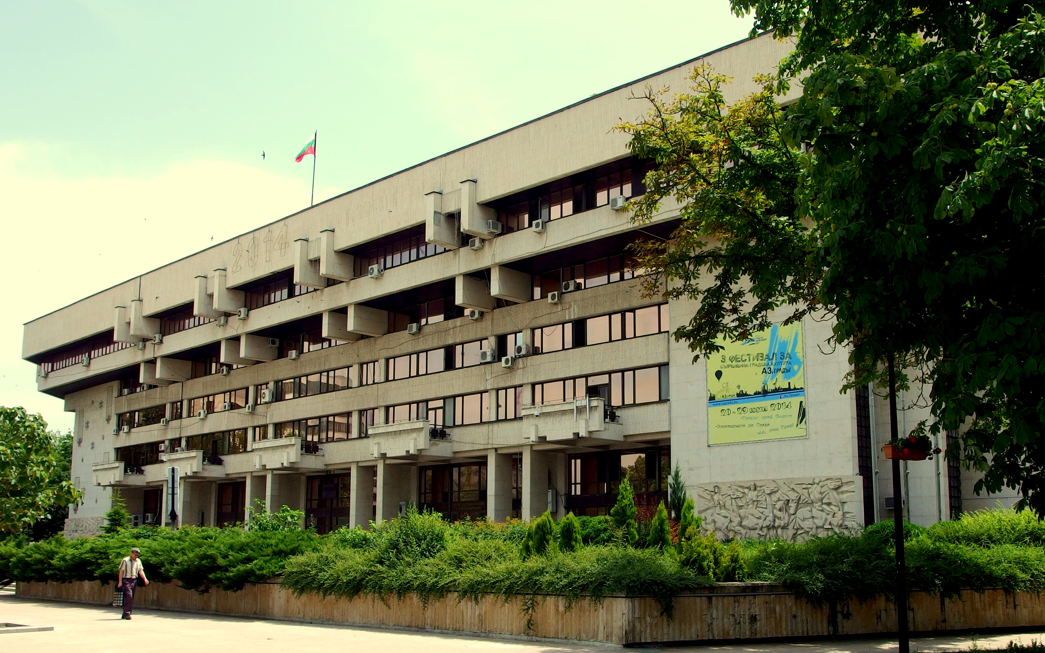 2014-06-25 in Rousse.